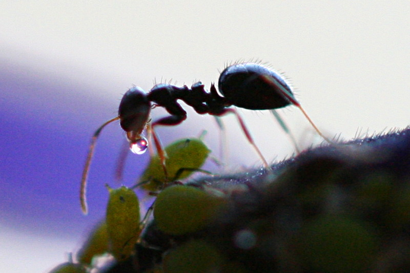 Image of an ant who received honeydew from aphid.